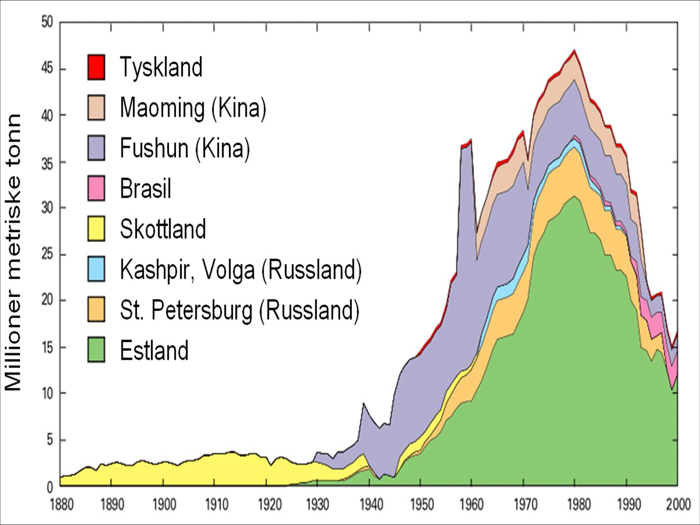 Oil shale production by country, translated into Norwegian.